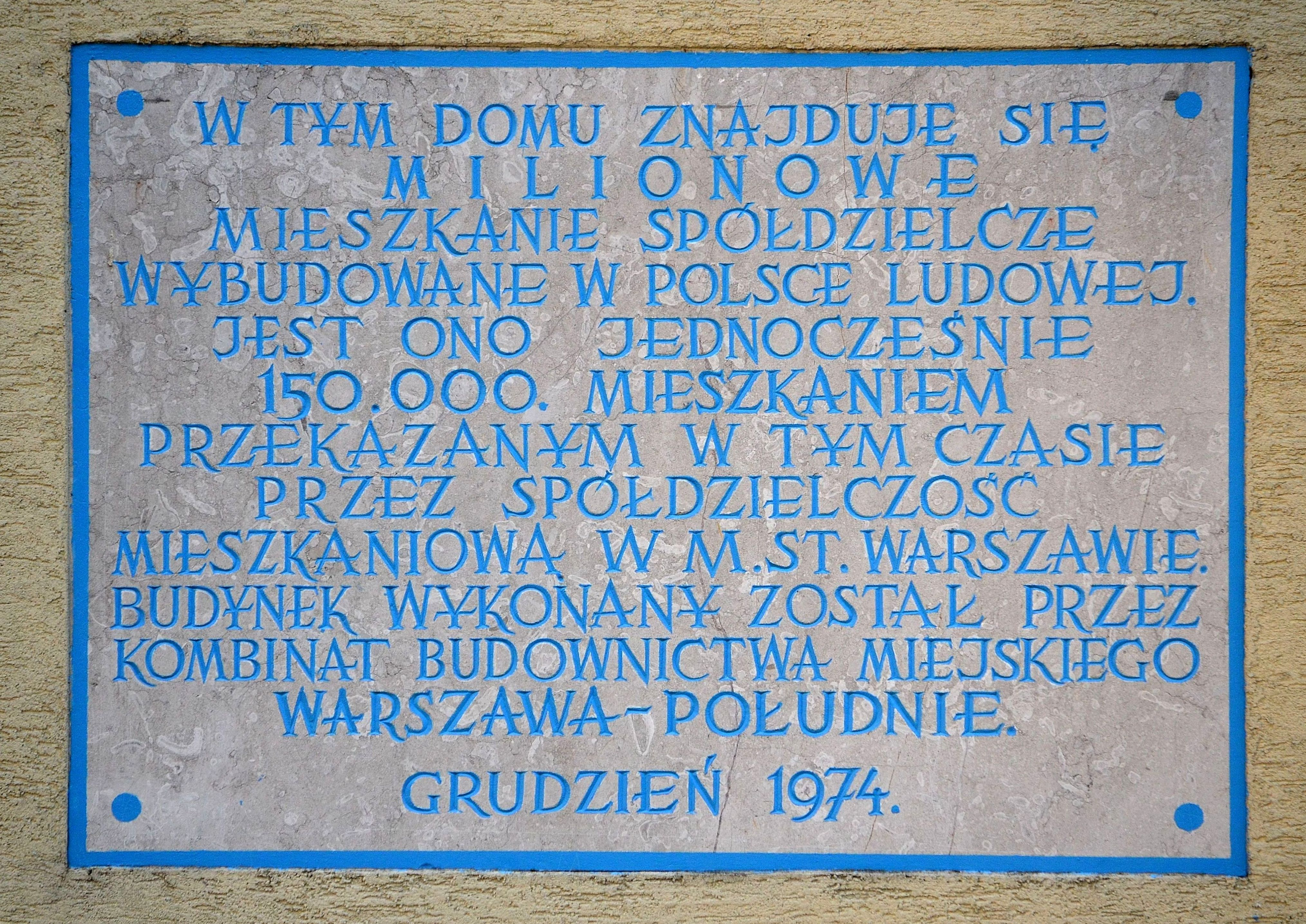 Plaque comemorating 1m cooperative flat built in the People's Republic of Poland put on a block of flats at 3 Marsylska Street in Warsaw